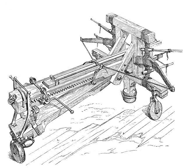 Catapult drawing from “Dictionary of French Architecture from 11th to 16th Centur”y